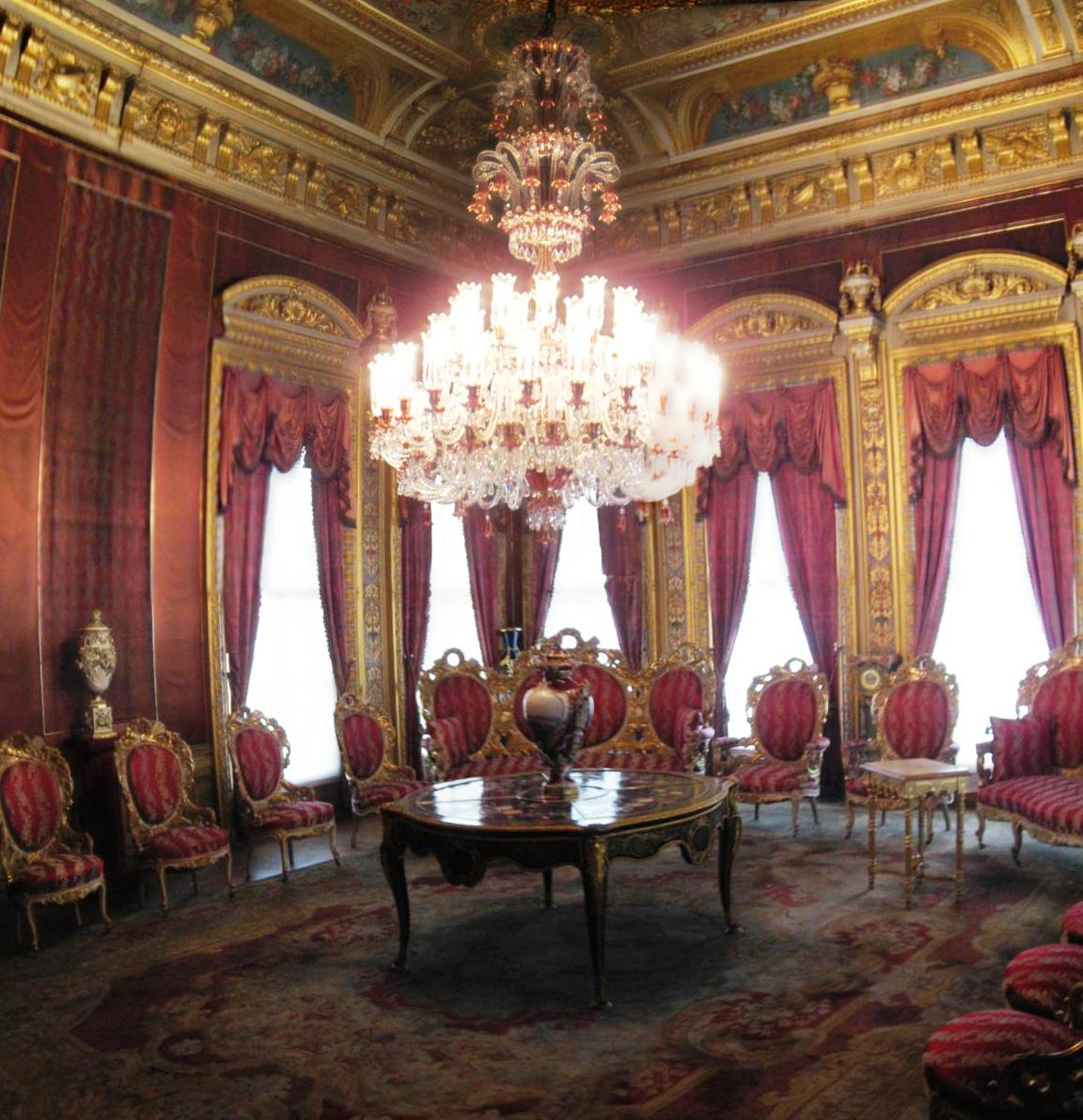 The Sultan's Room in the Harem (Harem Hünkâr Odası) in Dolmabahçe Palace. (#18 of the tour).